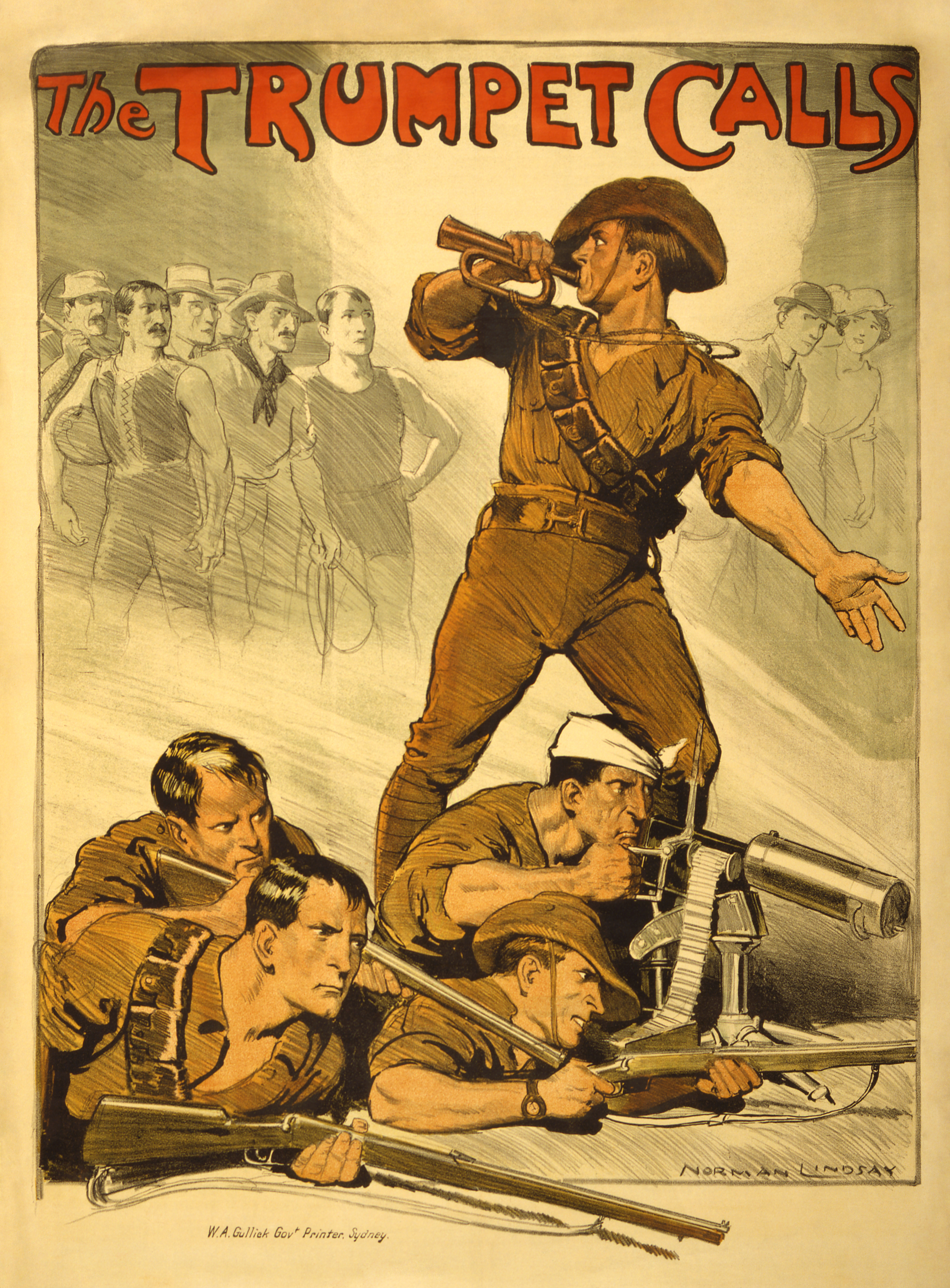 "The trumpet calls", an Australian Army recruitment poster from World War I. Restored image with tape mark at top border erased, depigmented sections restored, dirt and fibers removed, and levels adjusted.